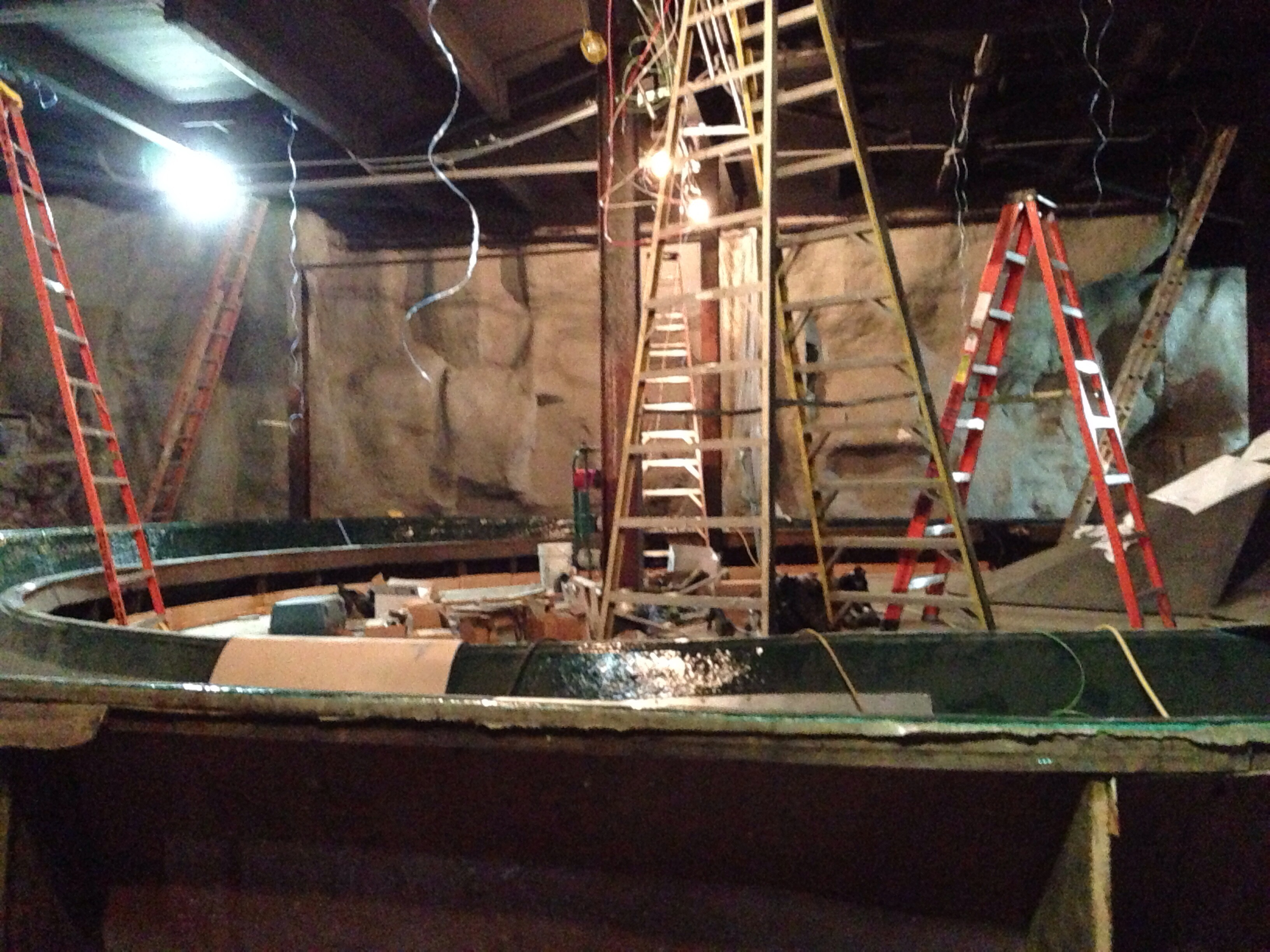 Construction on the Timber Mountain Log Ride at Knott's Berry Farm.